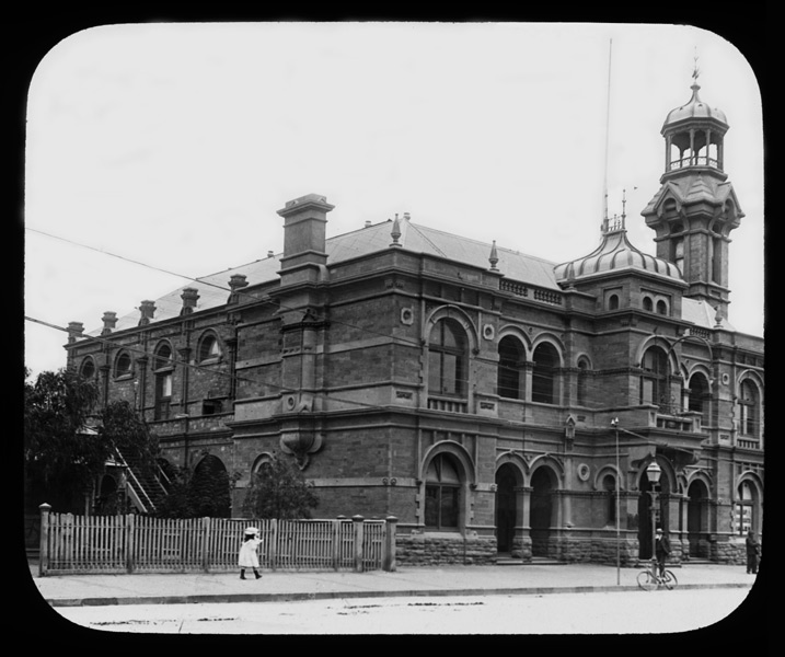 Town Hall, Broken Hill (NSW) Dated: by 11/05/1908 Digital ID: 14086_a005_a005SZ846000031r Rights: We'd love to hear from you if you use our photos. Many other photos in our collection are available to view and browse on our website using Photo Investigator.